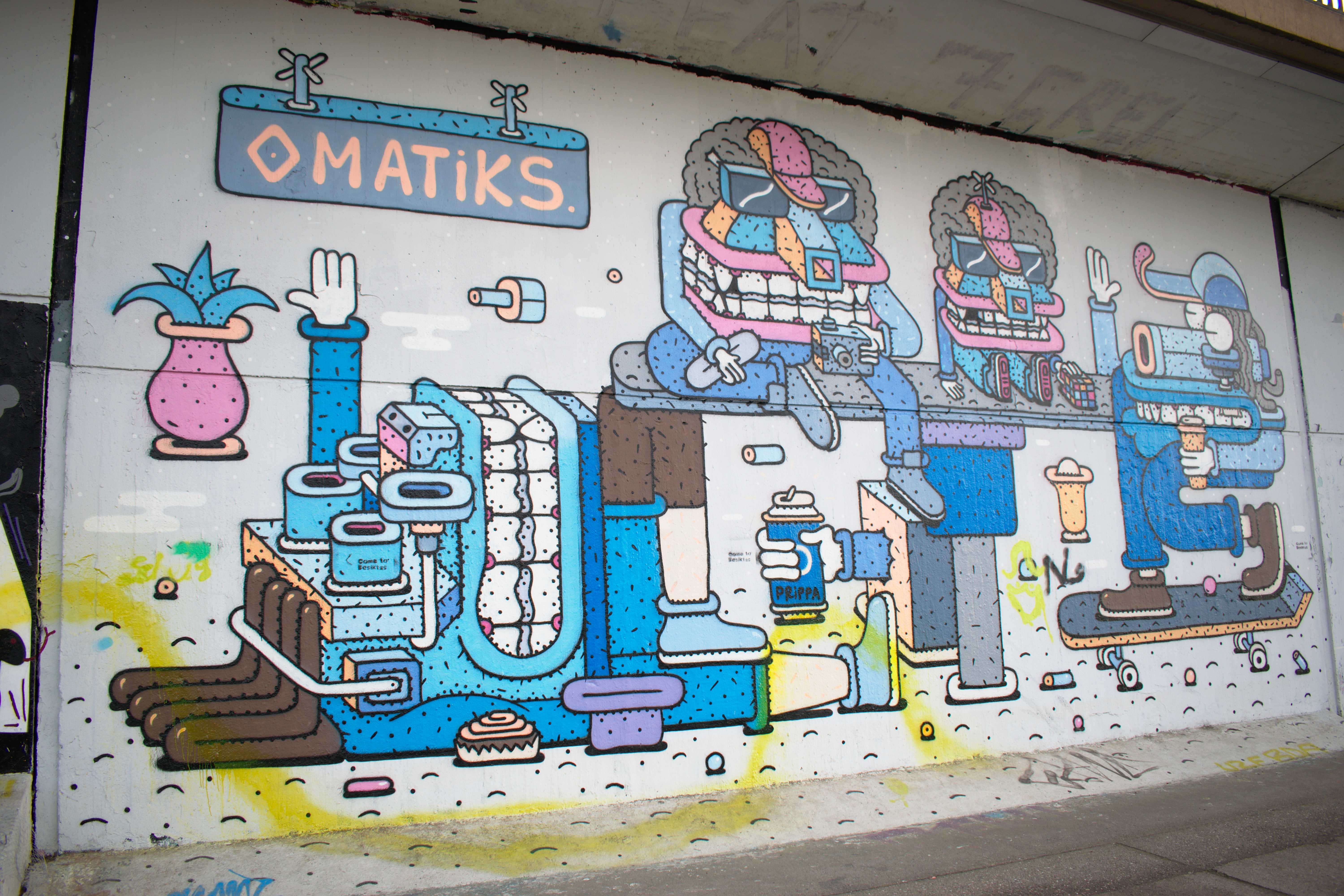 Graffities from April, 2018, at the so called 4560 in Saarbrücken.